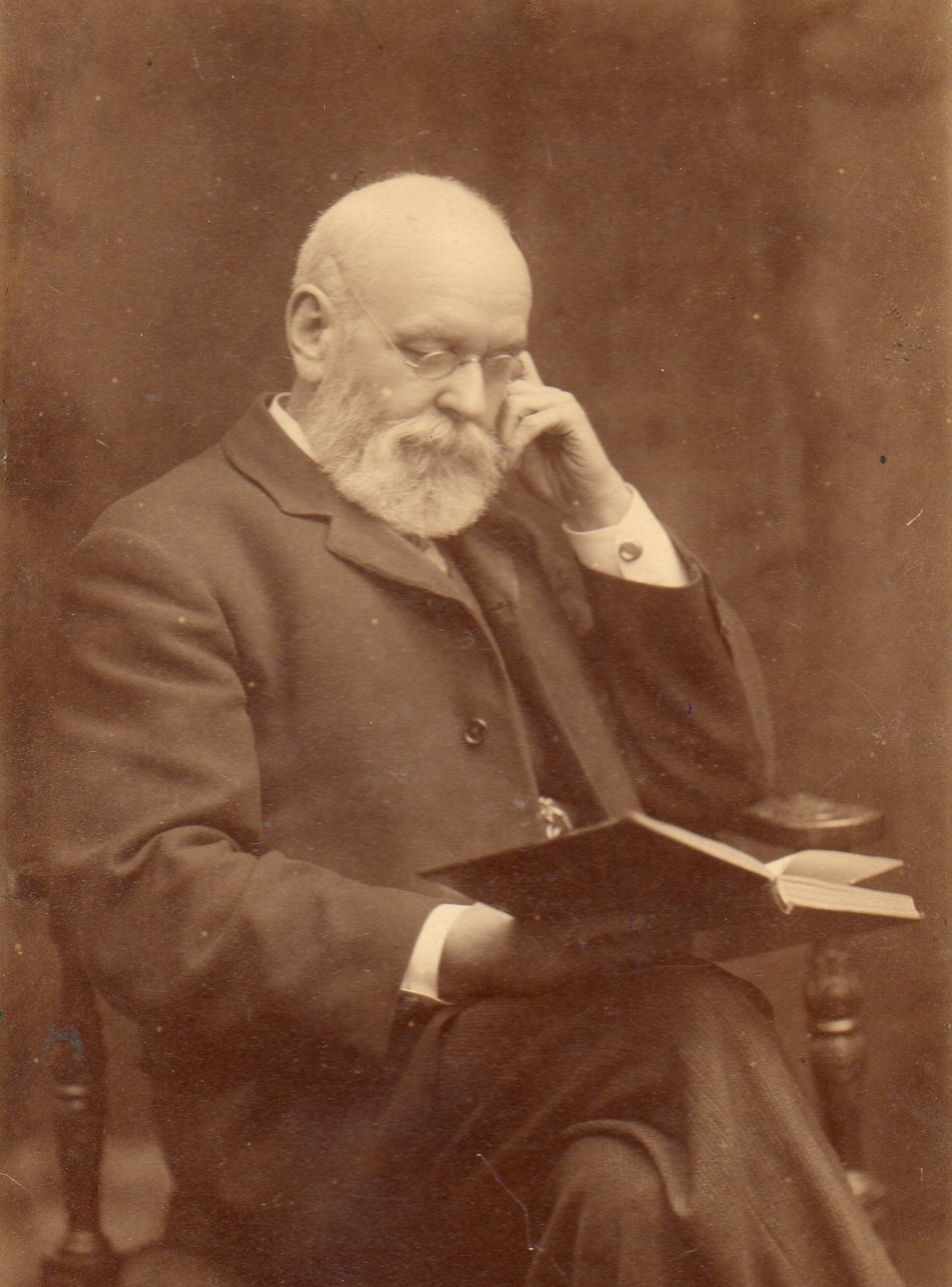 Samuel Tinsley, circa 1900.